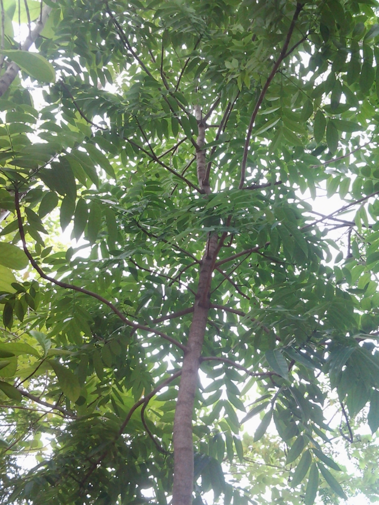 leaves and trees palavangudi